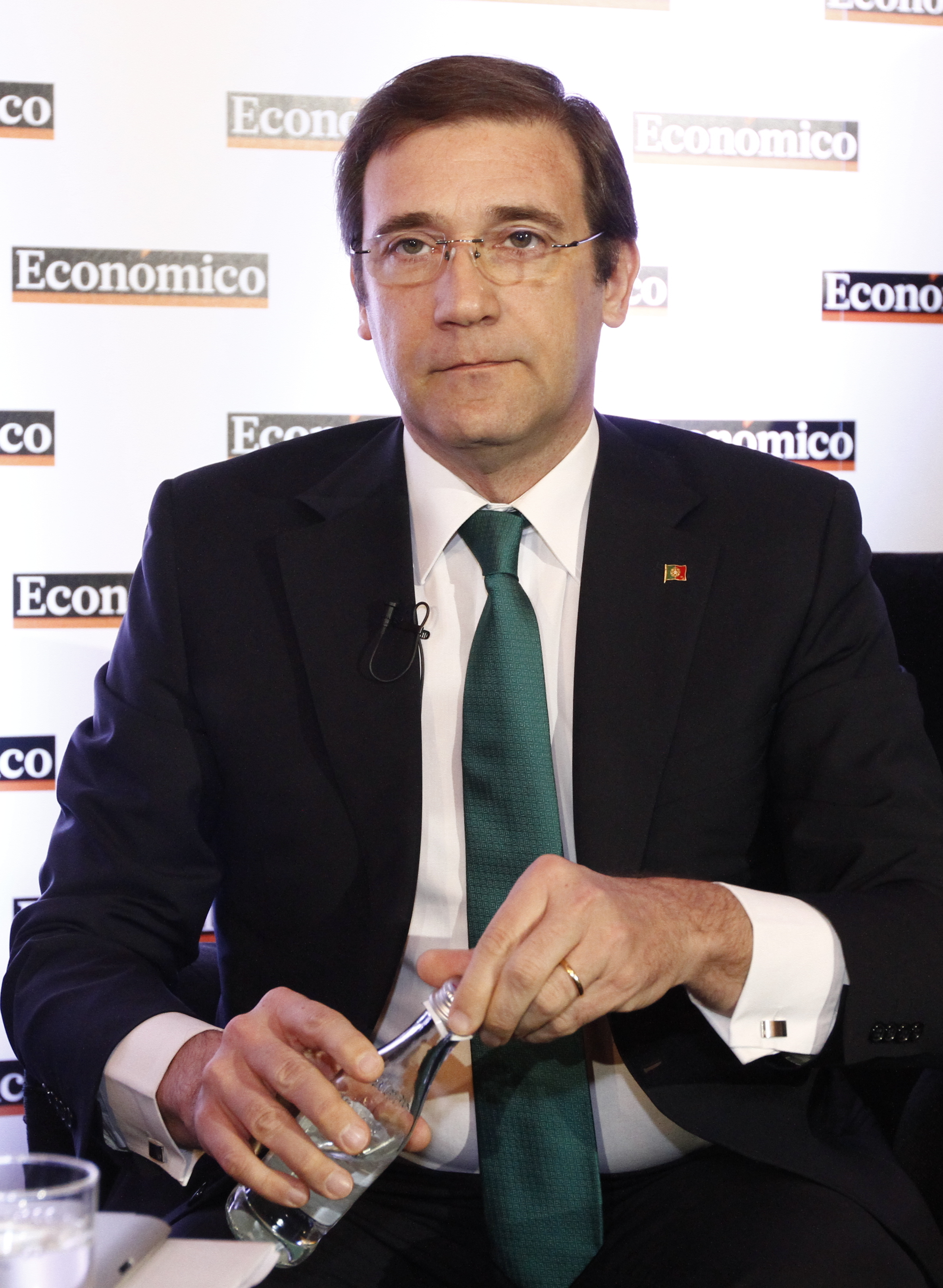 Pedro Passos Coelho, Portuguese Prime Minister